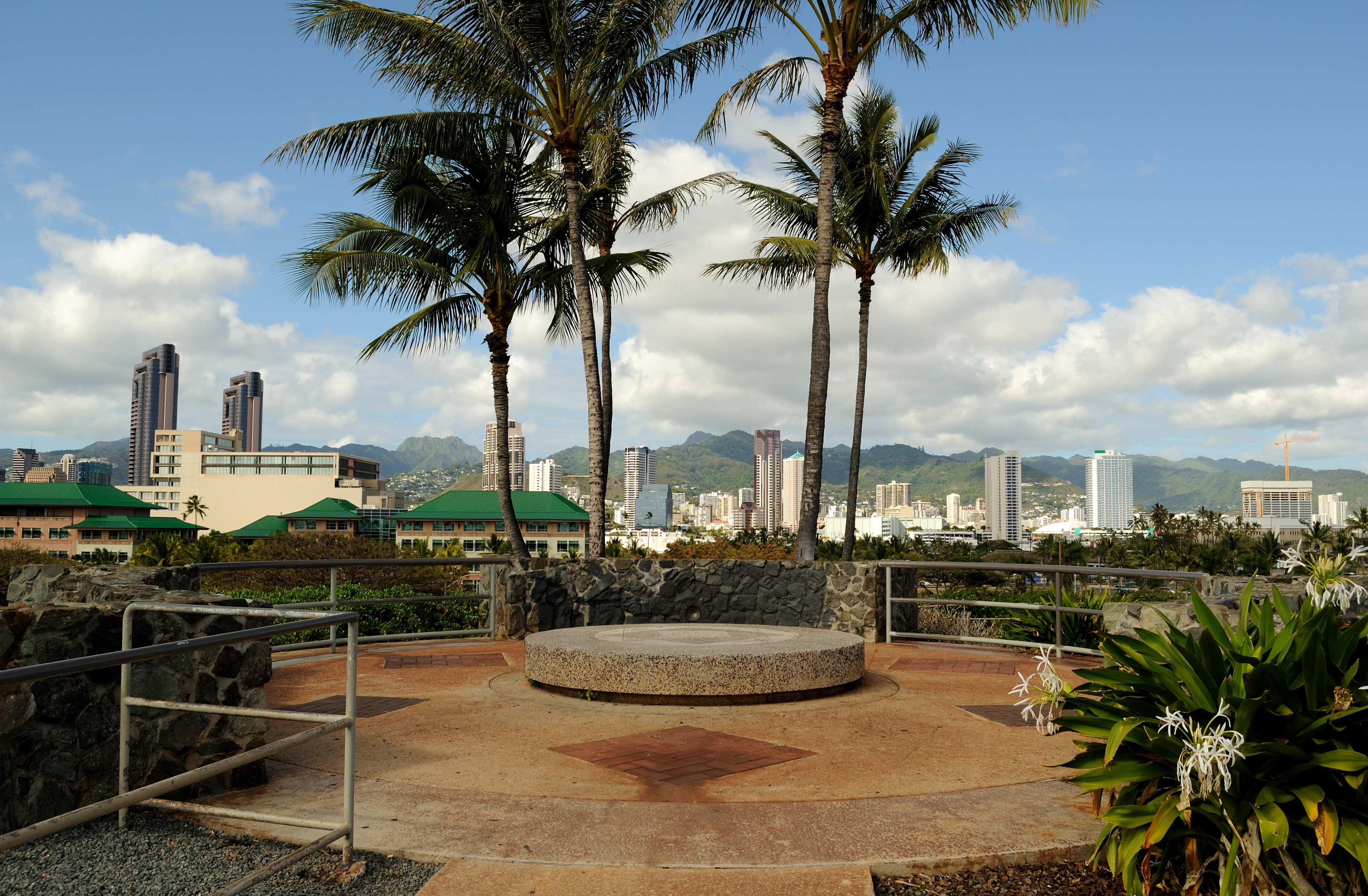 At the very top of the park.